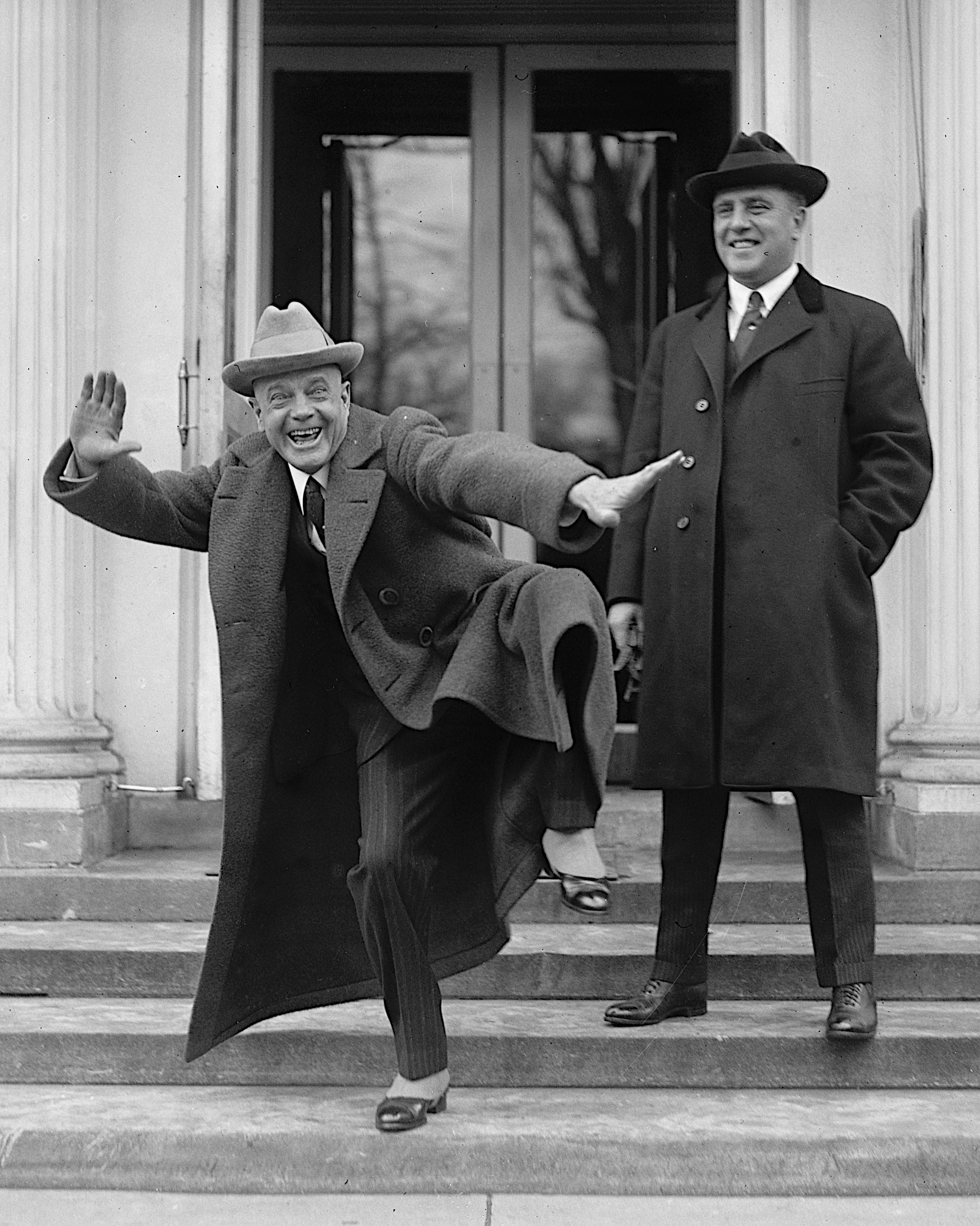 Billy Sunday (1862-1935) (left) at the White House with another unidentified man.